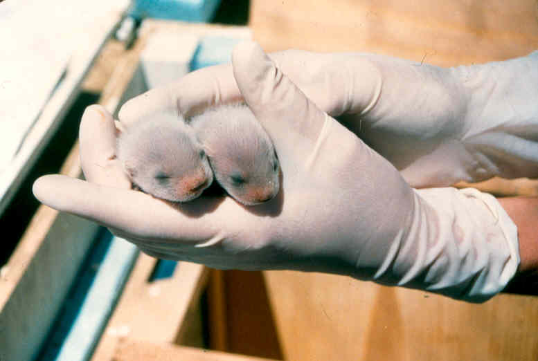 Black-footed ferret (Mustela nigripes), pups